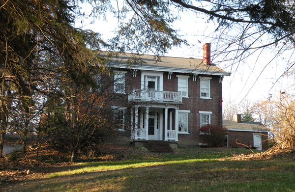 Picture of the Hutchinson Farm located on Round Hill Road at Pennsylvania Route 51 in Elizabeth Township, Allegheny County, Pennsylvania, on November 8, 2009. The farm is circa 1850 to 1899, and is listed on the National Register of Historic Places.